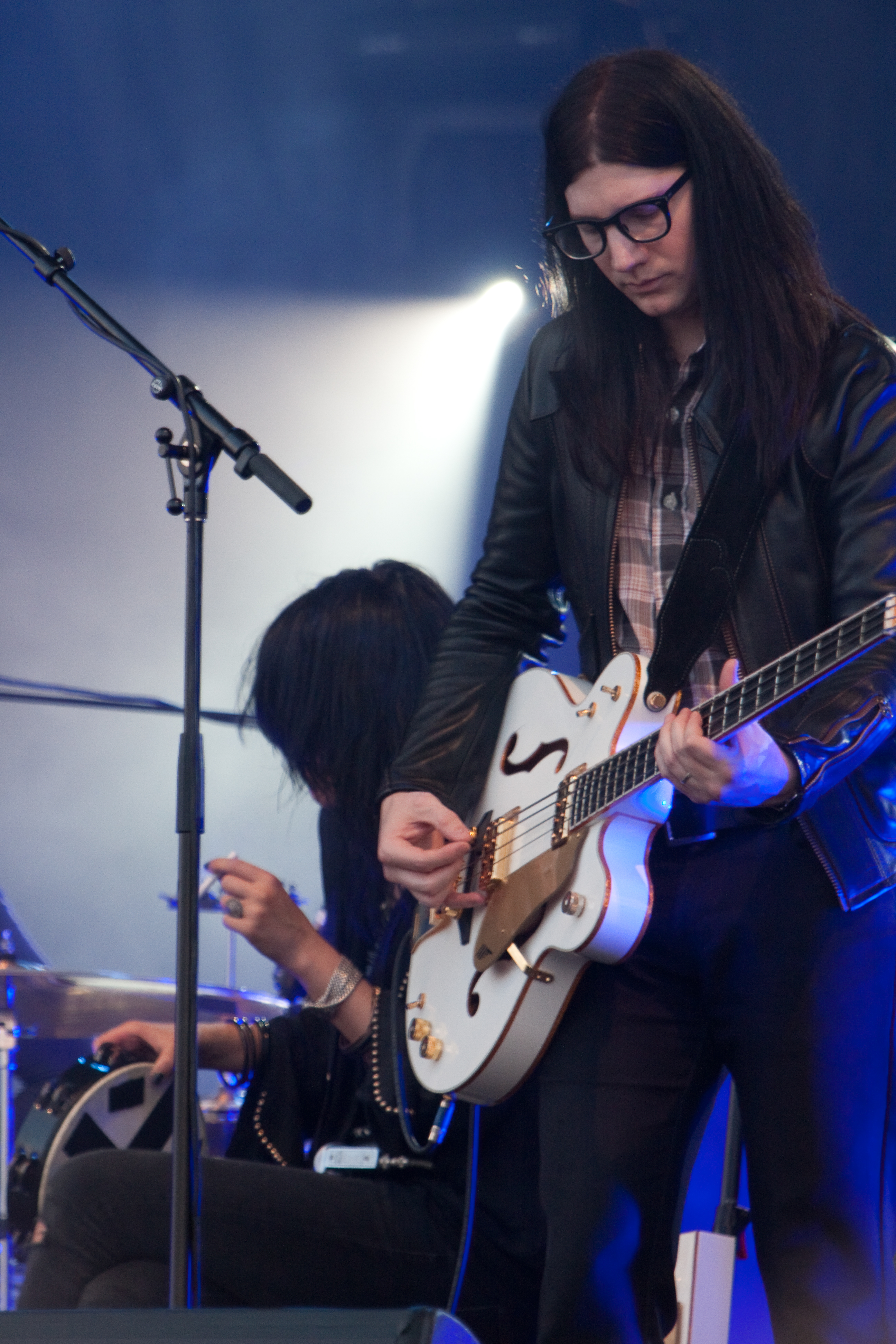 Jack Lawrence of The Dead Weather at the 2009 Ottawa Bluesfest.